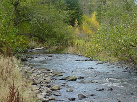 North Fork Umatilla River in northeast Oregon